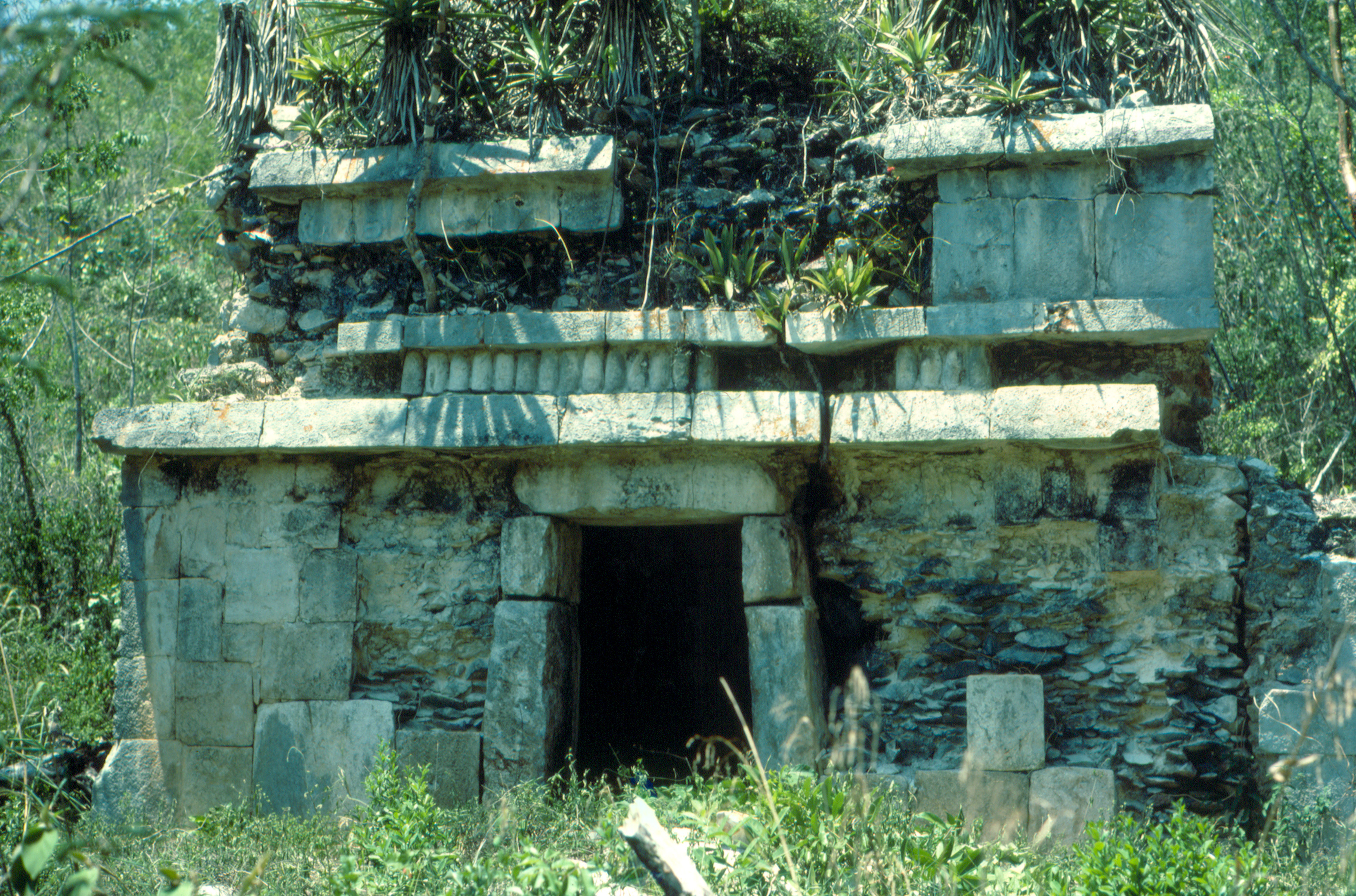 Xbalché, Campeche, Mexico: building 2.